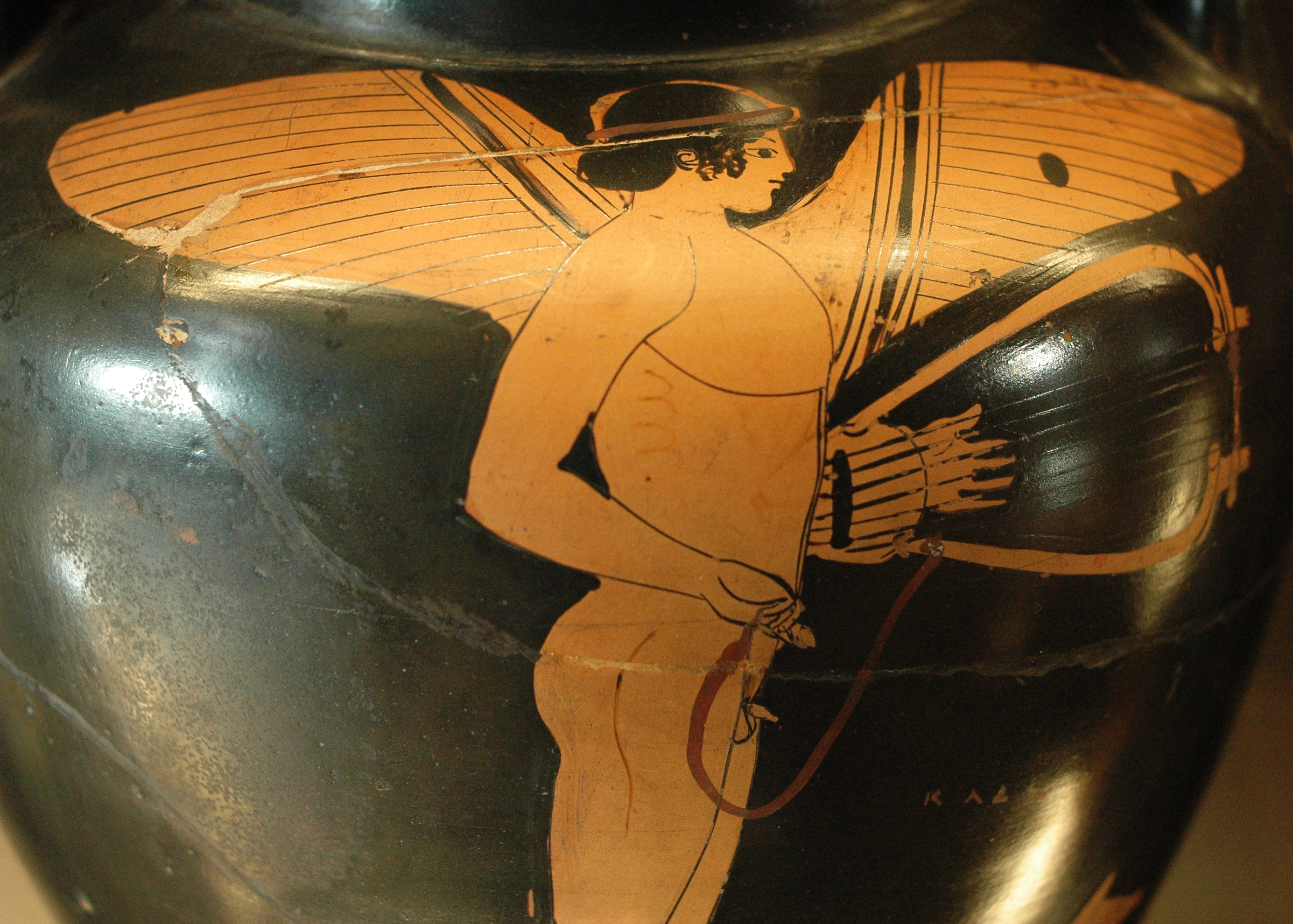 Eros flying and holding a lyre. Detail from an Attic red-figure amphora by the Charmides Painter, ca. 470 BC. Found in Nola, Campania, Italy.